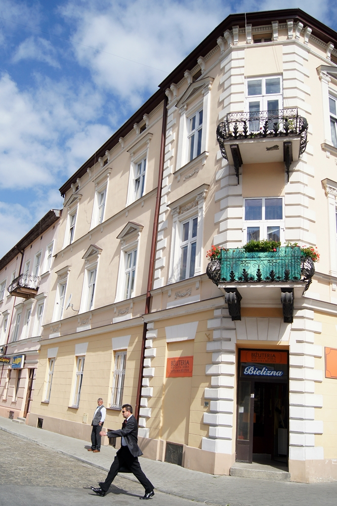 Rzeszów, Bożnicza